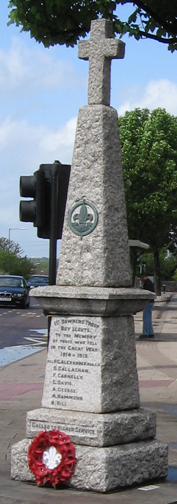 Scouts War Memorial in Downend, South Gloucestershire